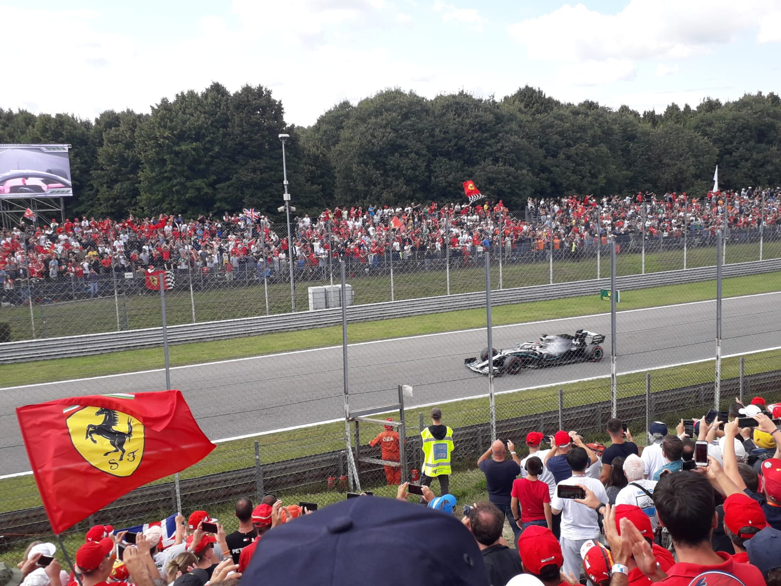 Lewis Hamilton at 2019 Italian GP in Monza.